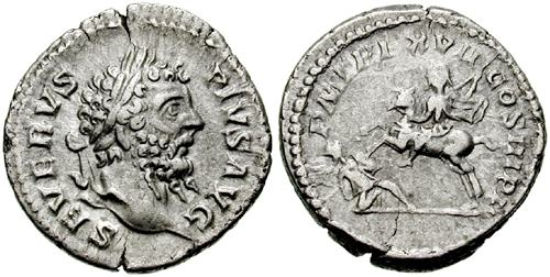 Septimius Severus. 193-211 AD. AR Denarius (19mm, 3.44 gm). Struck 209 AD. Laureate head right Septimius Severus on horseback left, hurling javelin at British enemy. RIC IV 231; BMCRE p. 357, * (citing Arnold collection and Cohen); RSC 536. VF. Rare, only five specimens listed in the Reka Devnia hoard. From the Marc Melcher Collection.